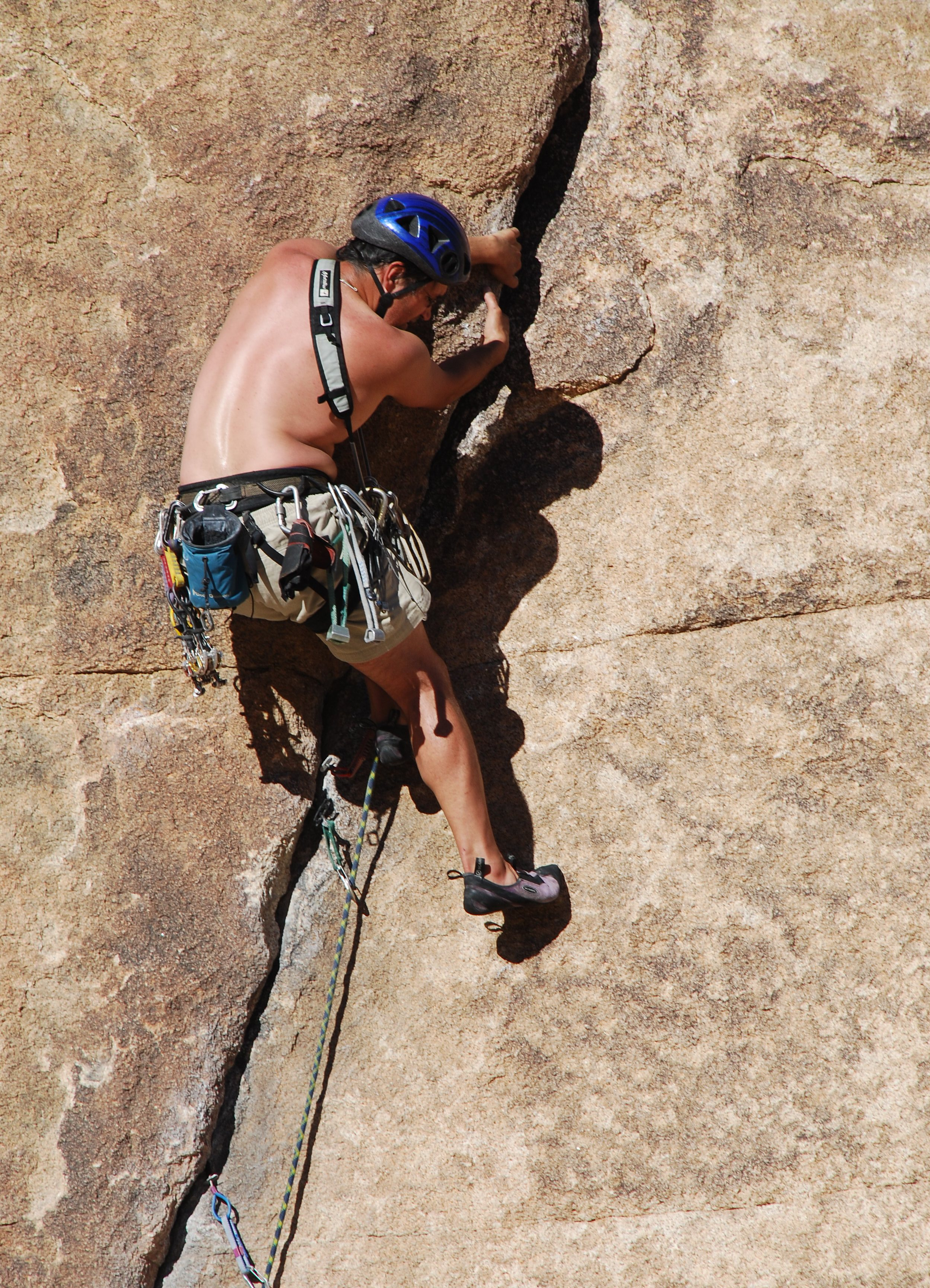 Joshua Tree National Park: Climber on Right V Crack (5.10a) on South Face of Short Wall in Indian Cove.